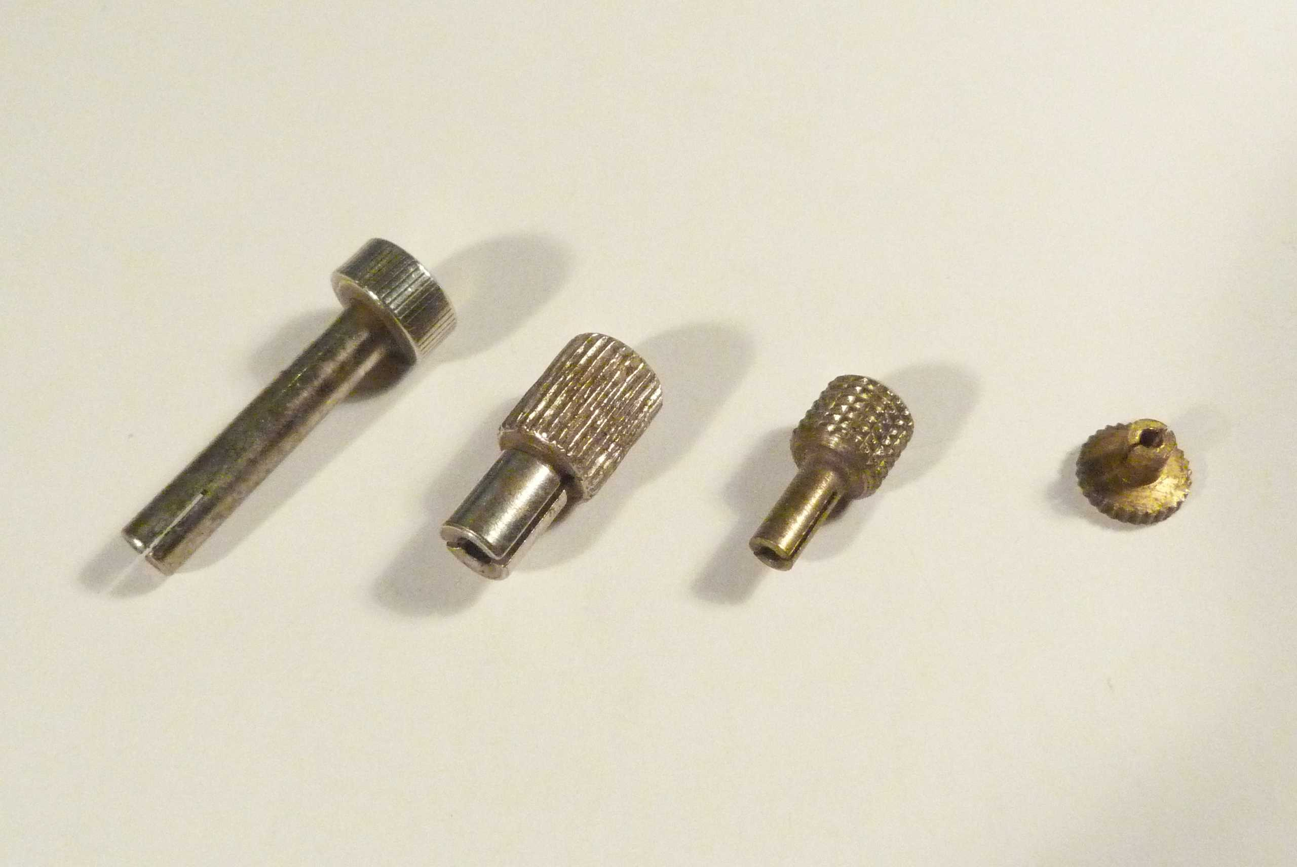 Insertable adjusting knobs for alarm clocks and small table clocks